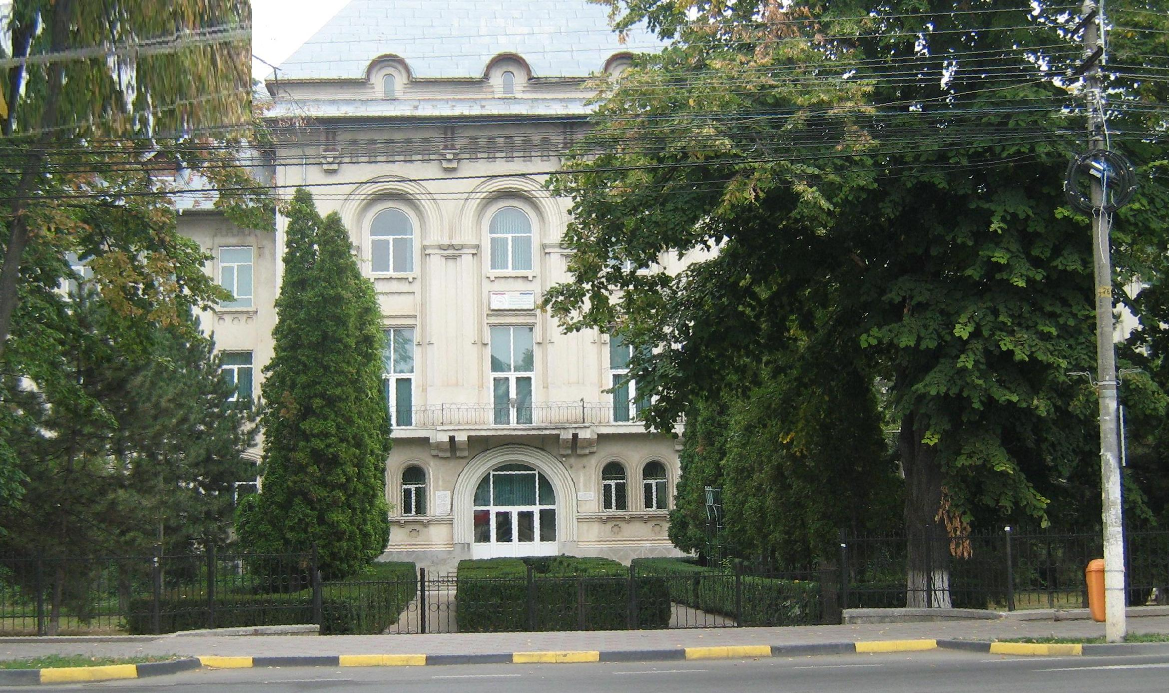 Tecuci, one of the greatest buildings